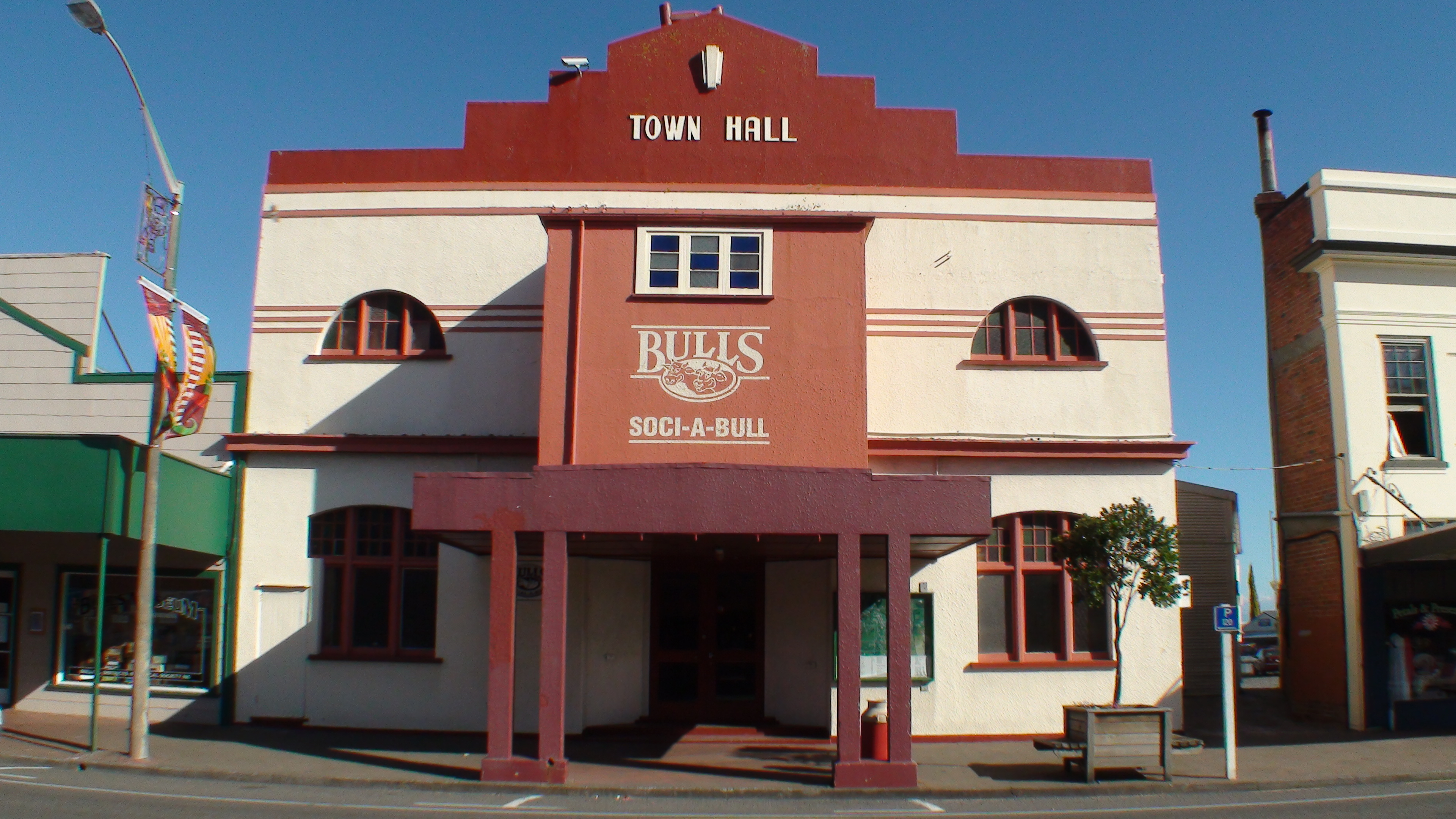 This photo is by studio tdes. You’re welcome to use it. We like to share. Please link to us: Details on how to credit us: Bulls, New Zealand.